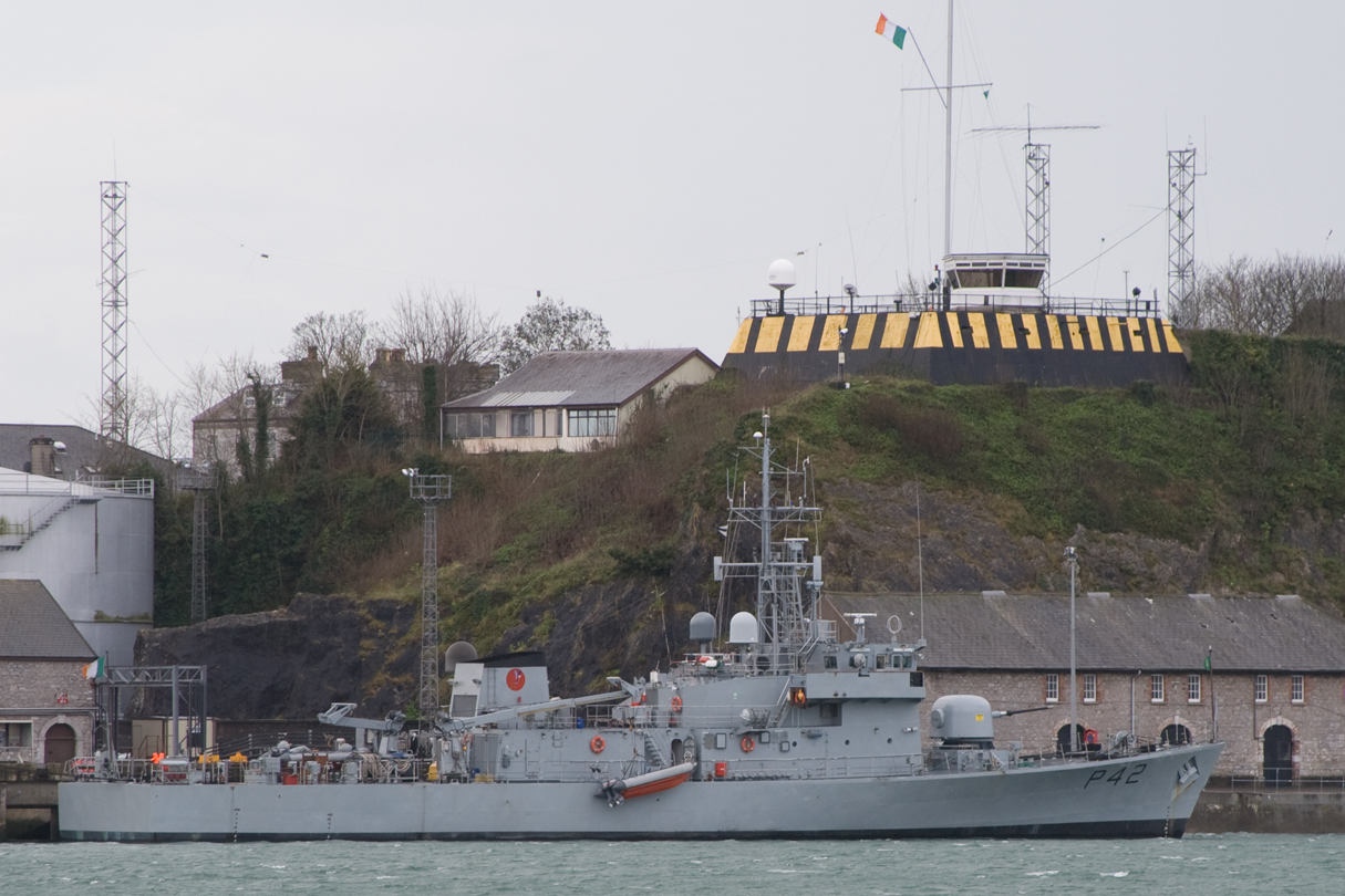 Irish Navy ship LE Ciara (P42) at Haulbowline.